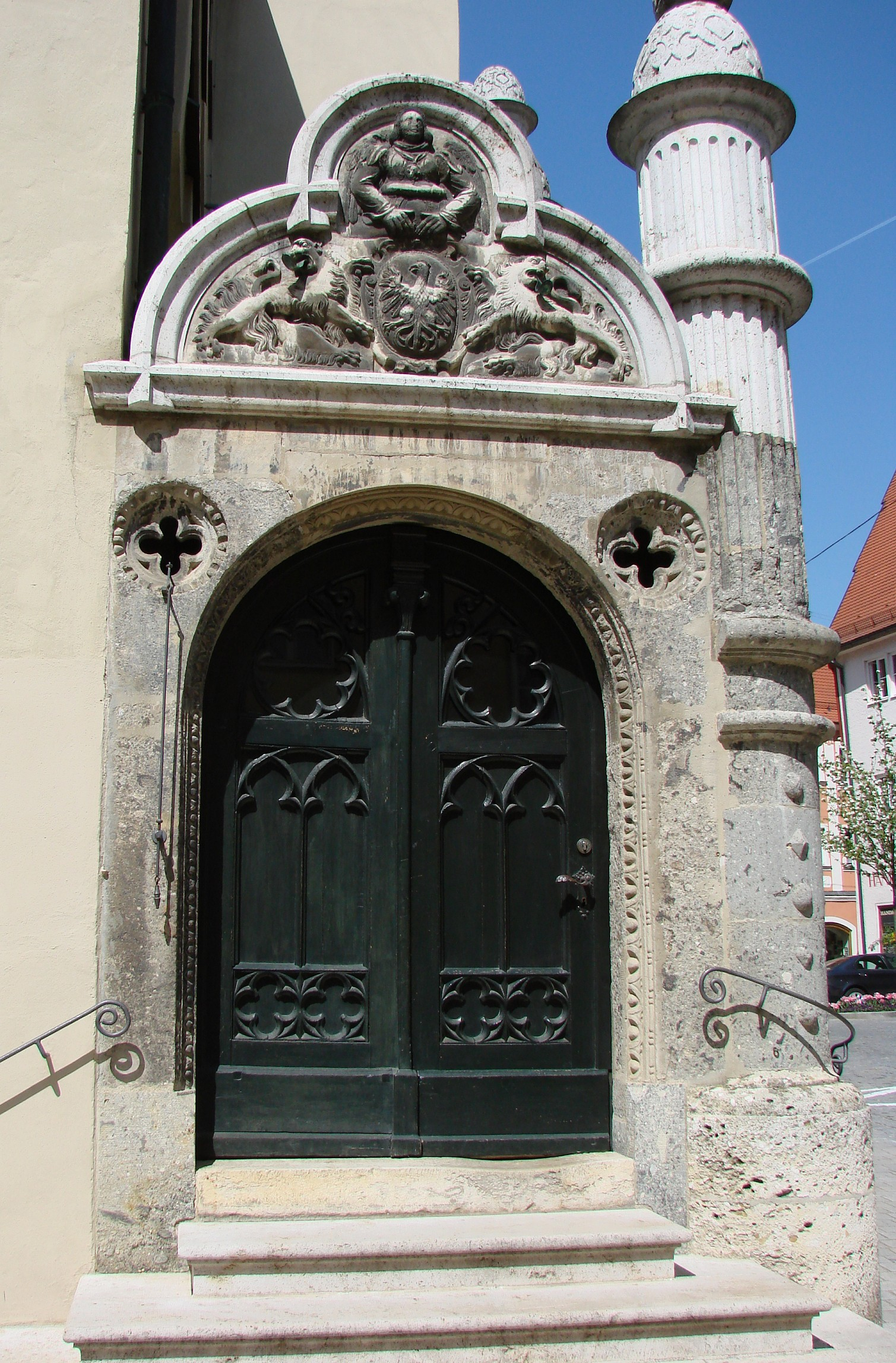 Nördlingen, Germany, Portal to the town hall's stairway is made from quarried Suevite (impact glass) rocks